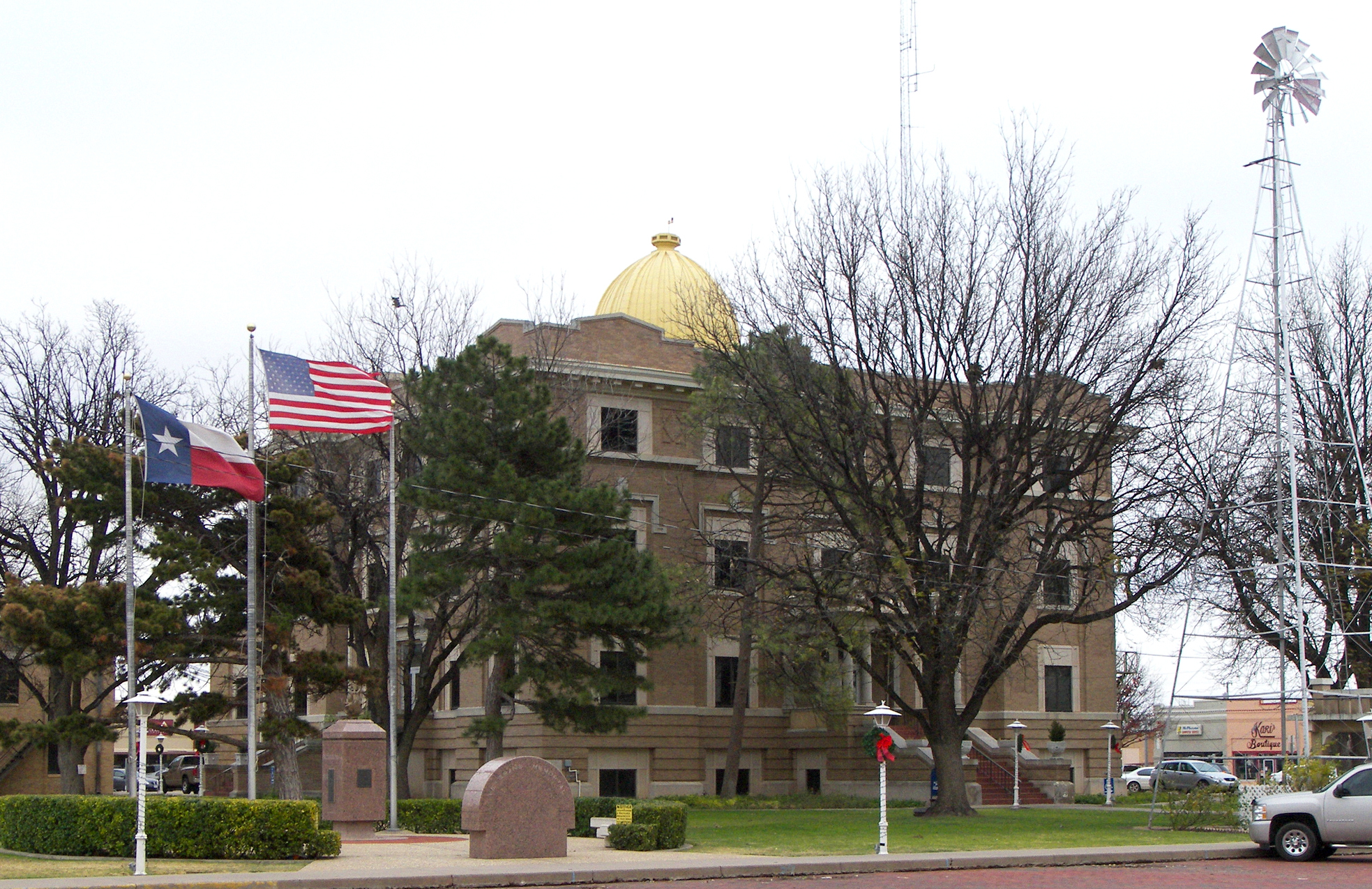 The Hale County Courthouse located at 500 Broadway St, Plainview, Texas, United States.